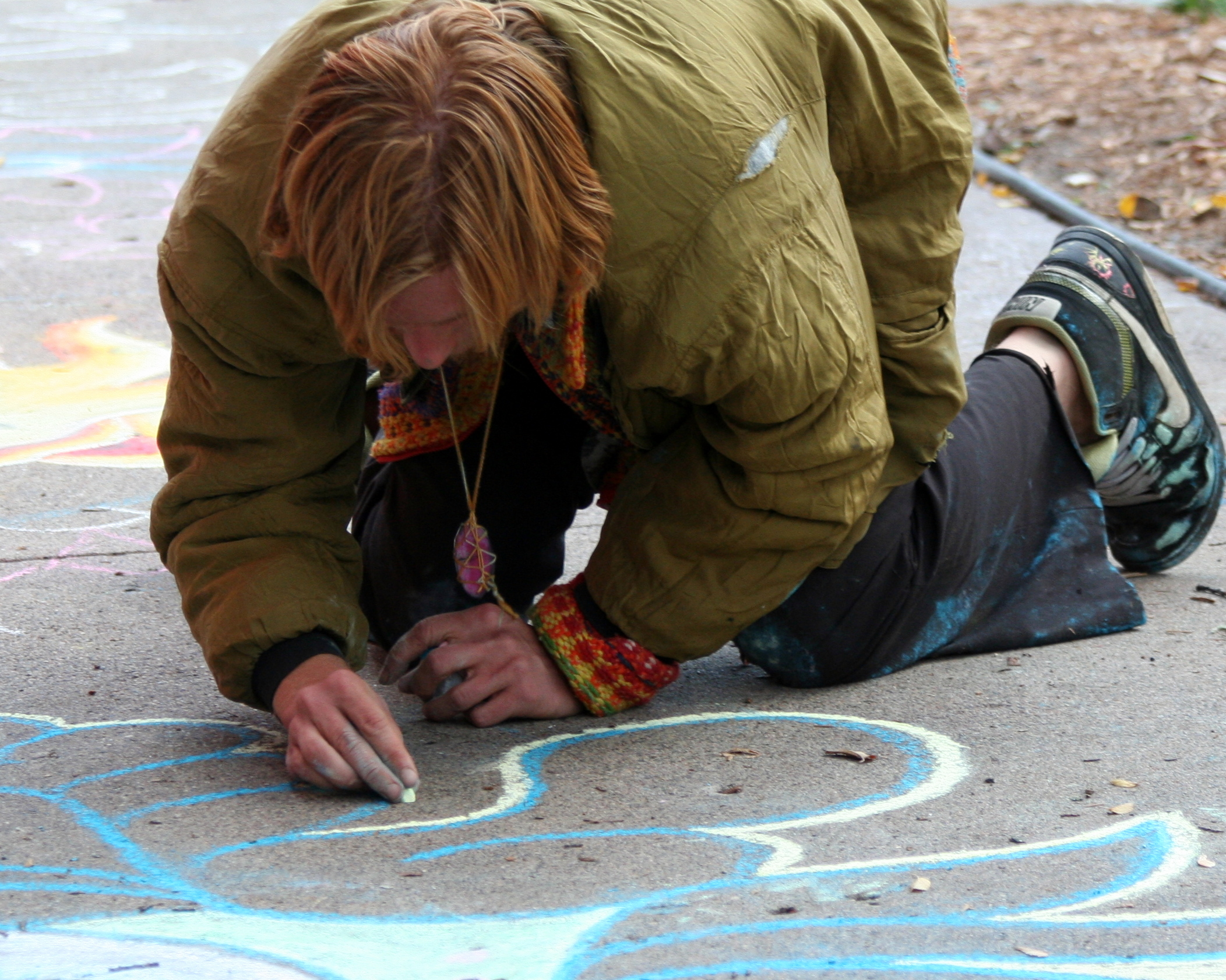 An anonymous Minnesota sidewalk chalk artist at work